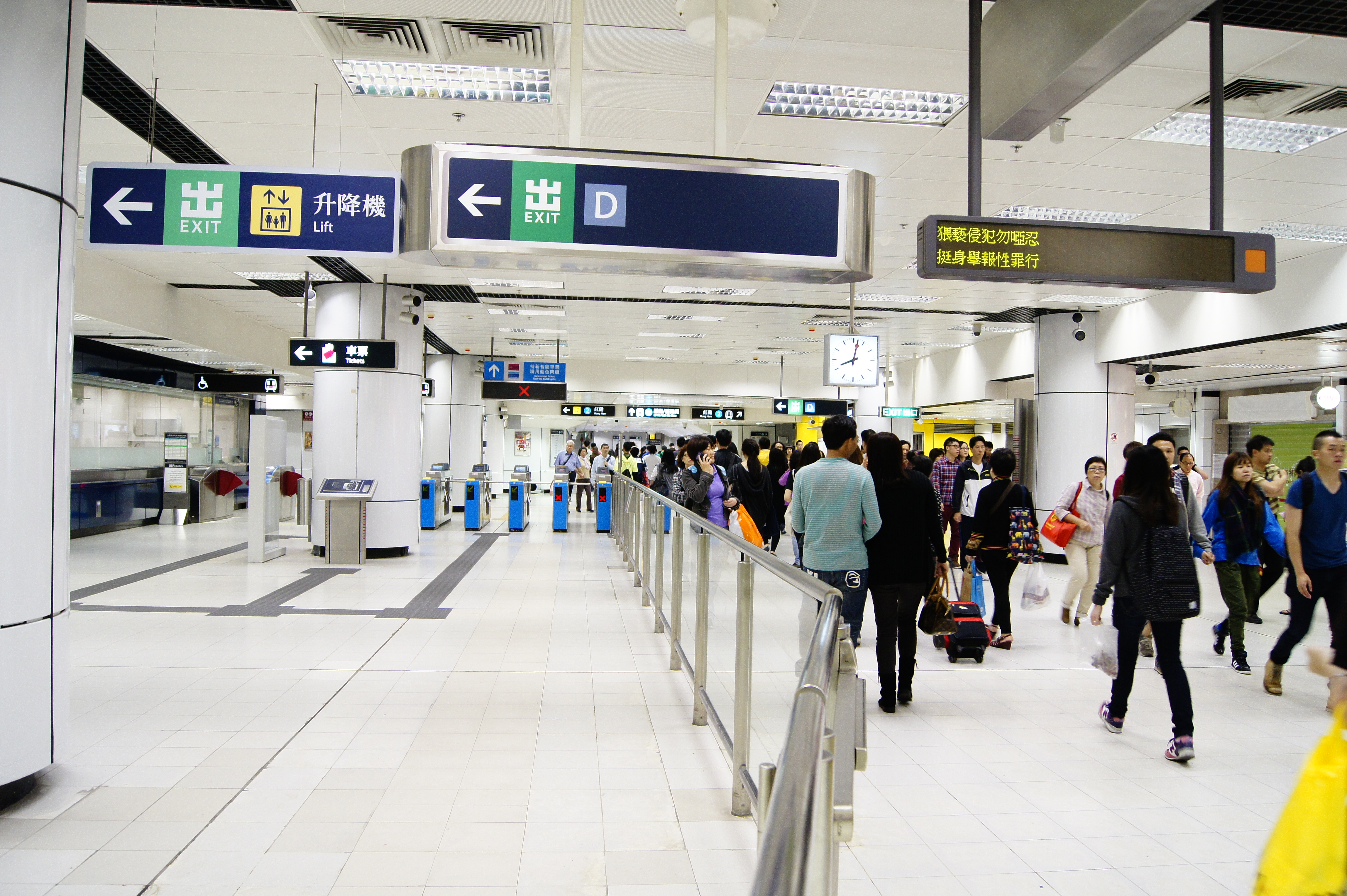 MTR Kowloon Tong Station East Rail Line Southern concourse